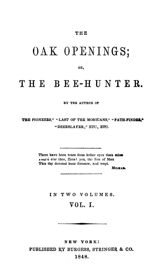 Title page for the novel The Oak Openings; or, The Bee Hunter by American writer James Fenimore Cooper (1789-1851). First edition published in 1848.